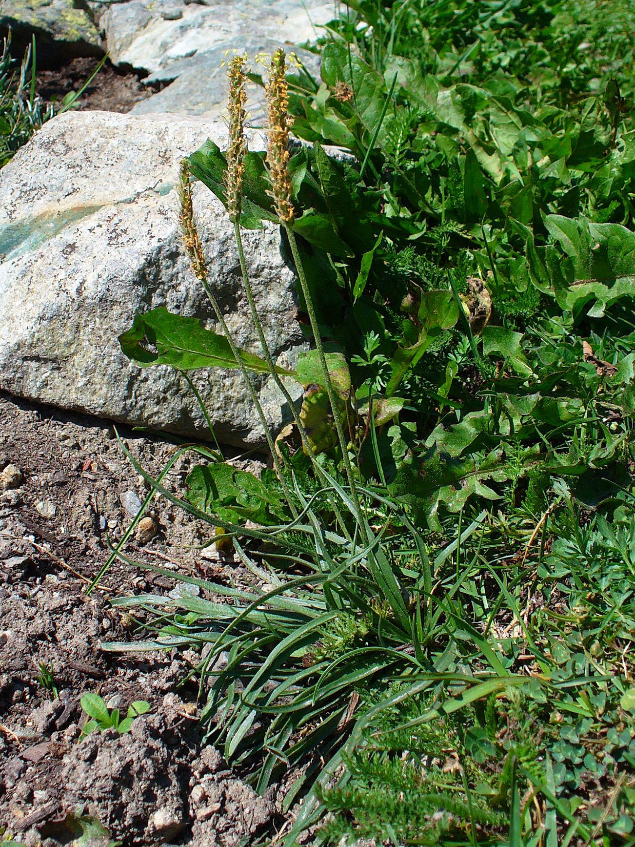 Plantago maritima agg. (Plantago alpina), Plantaginaceae, Alpine Plantain, habitus; Heidi’s Flower Trail, St. Moritz, Engadin, Switzerland, altidude ca. 2.000 m.